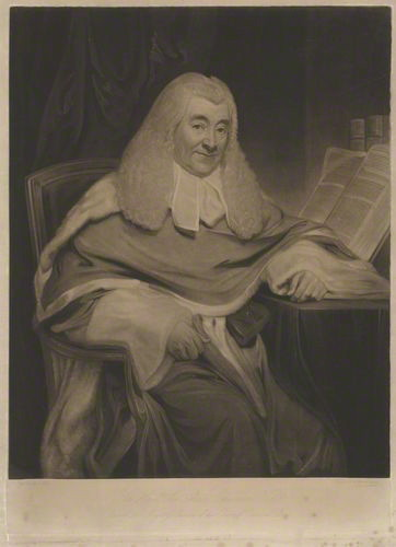 Portrait of Sir Alan Chambré (1739–1823), English judge.